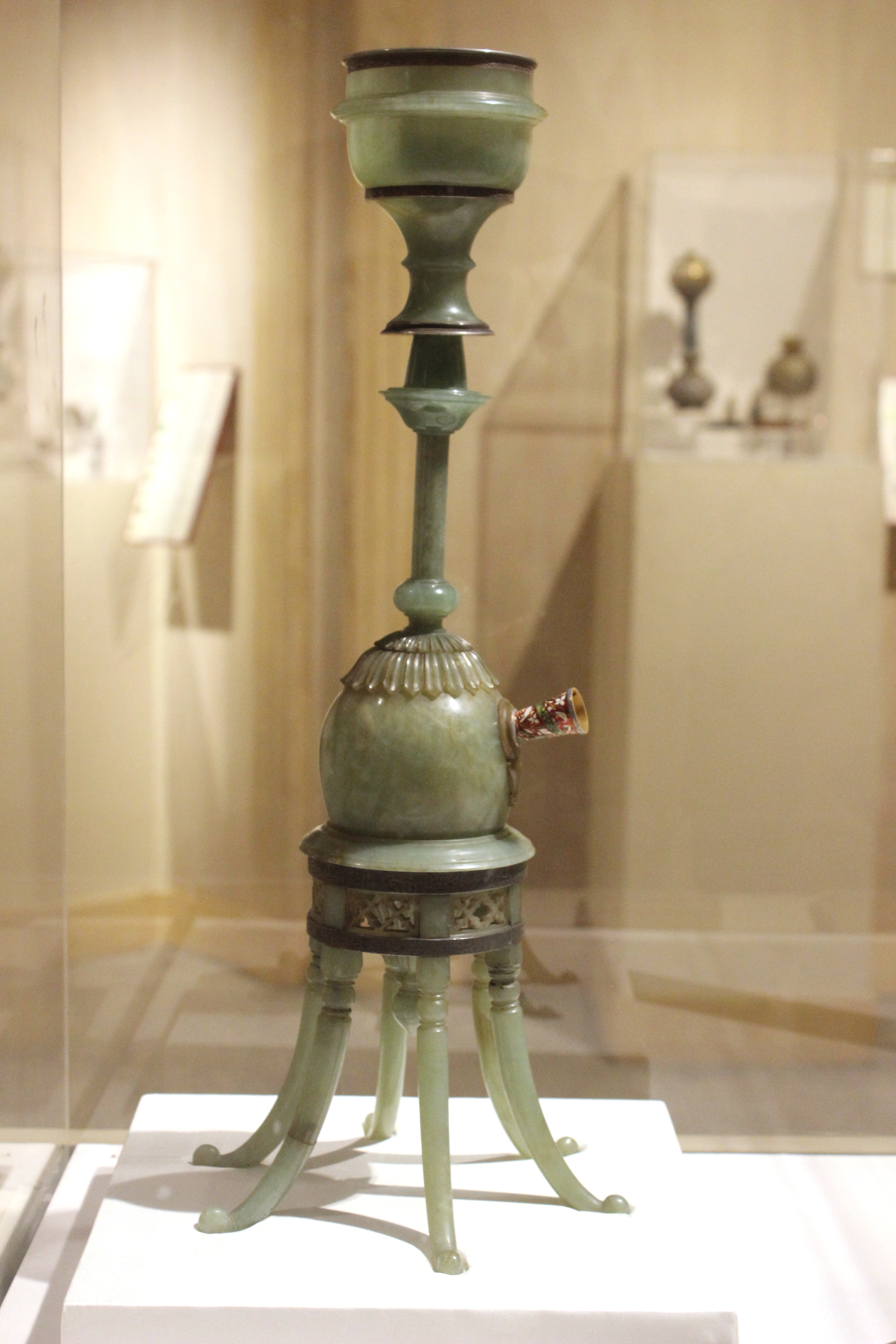 jahangir's huqqa in the gallery